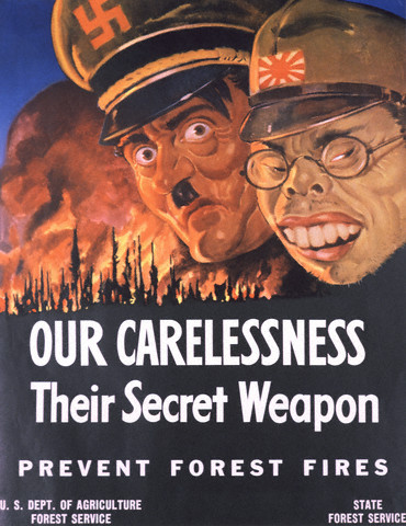 U.S. World War II anti-forest fire propaganda, featuring Adolf Hitler and Hideki Tōjō.